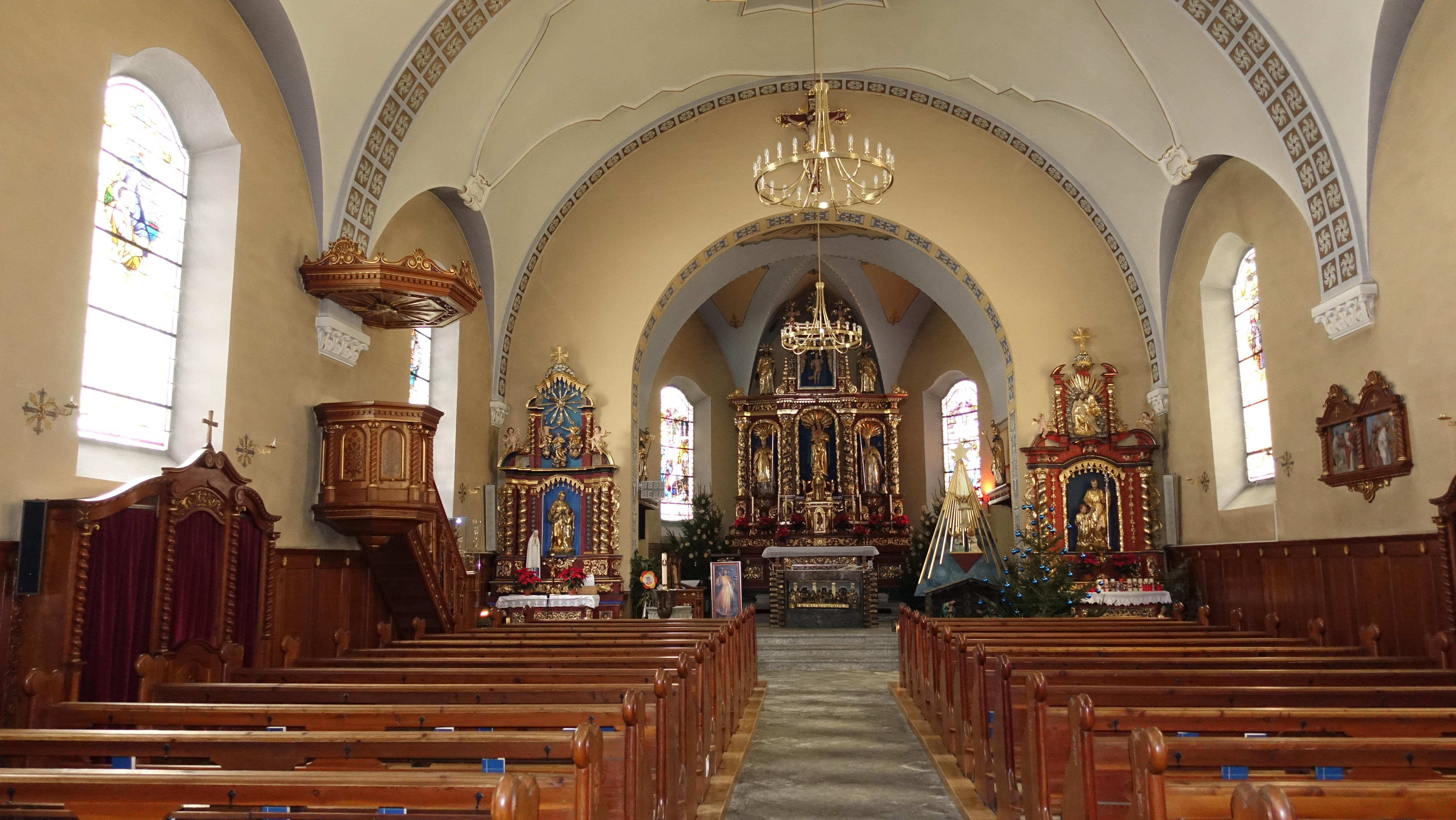 Temple in Herbriggen